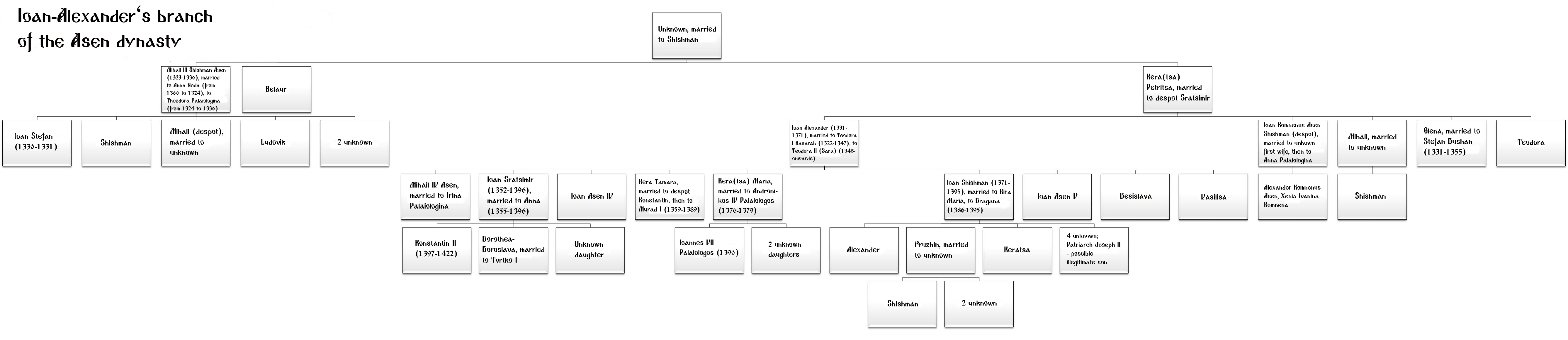 Family tree for the Shishman branch of the Asen dynasty